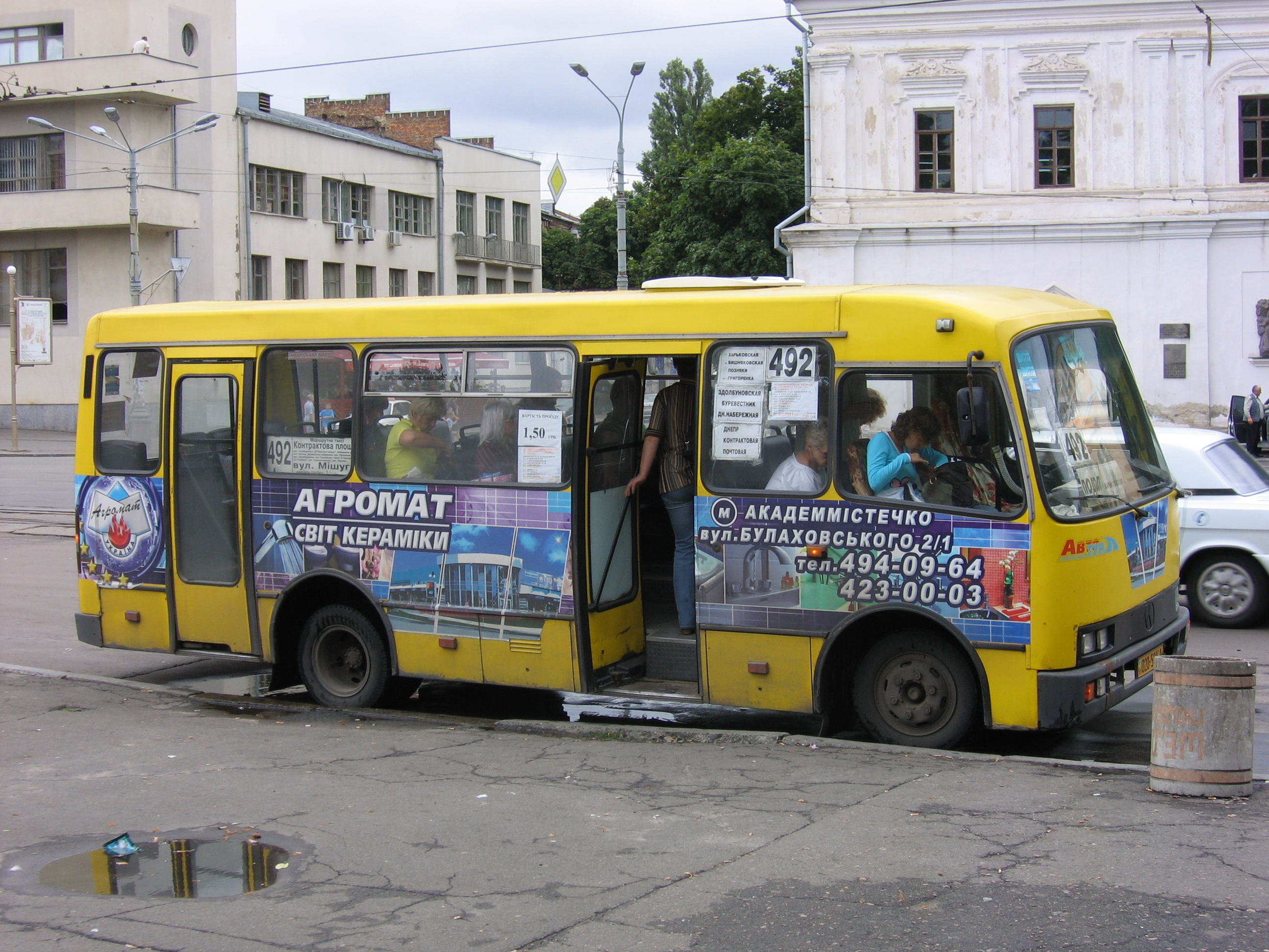 Marshrutka in Kiev, Ukraine